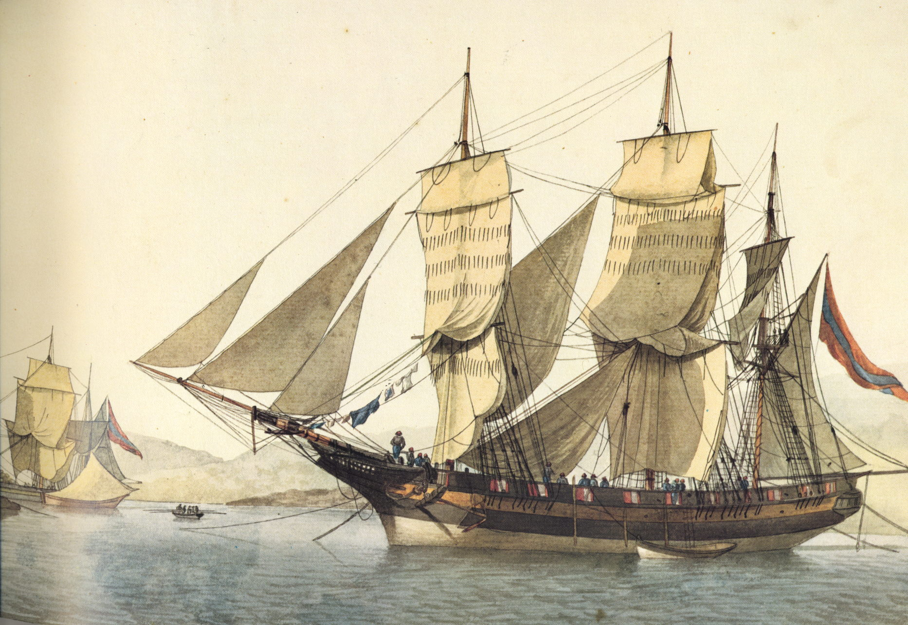 The Ottoman-Greek polacre San Nicolo, anchored off Pomègue. This study was developped by Antoine's son François into a large aquatint now at the Musée de la Marine in Paris.